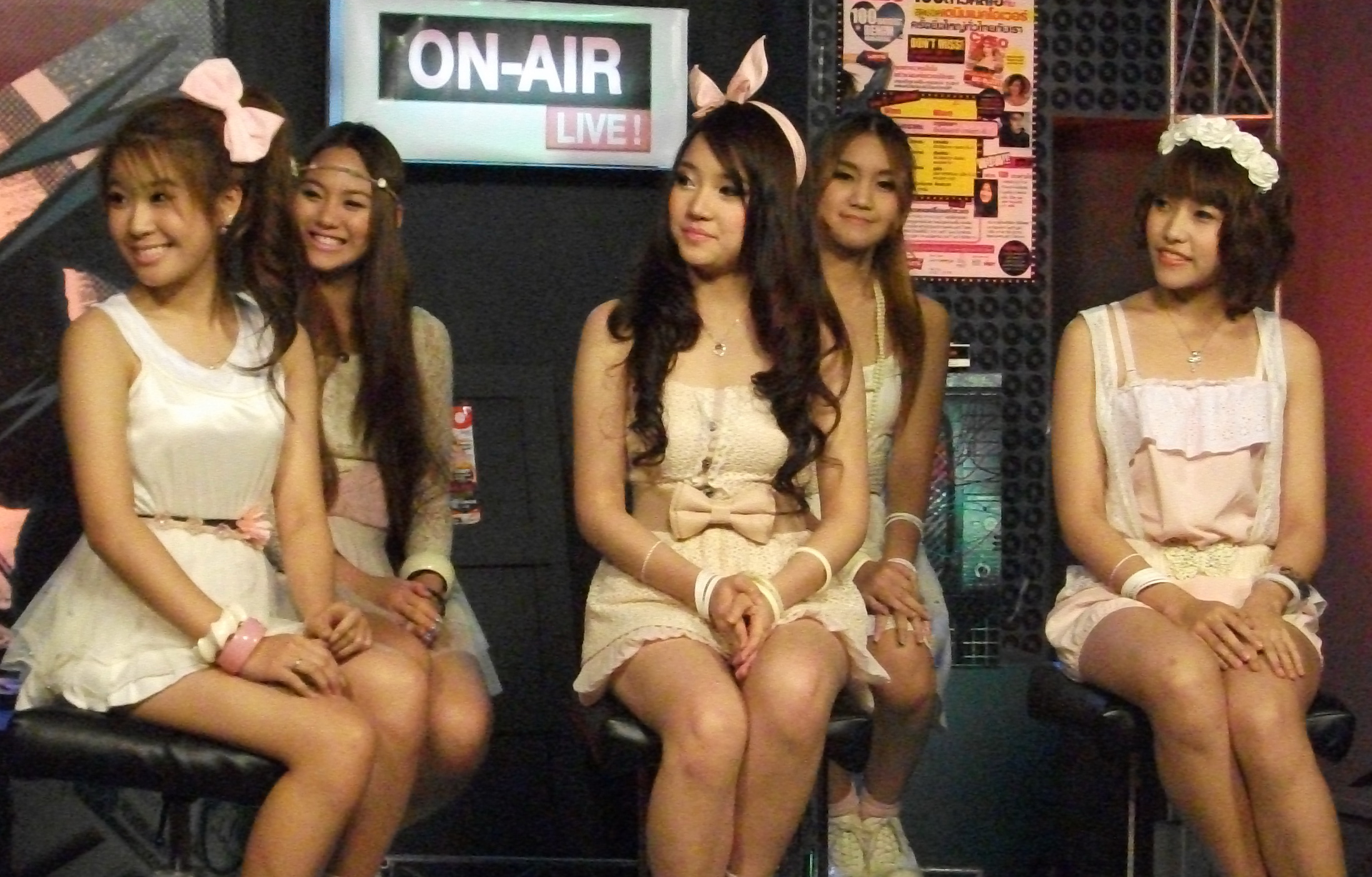 Candy Mafia at VERY TV